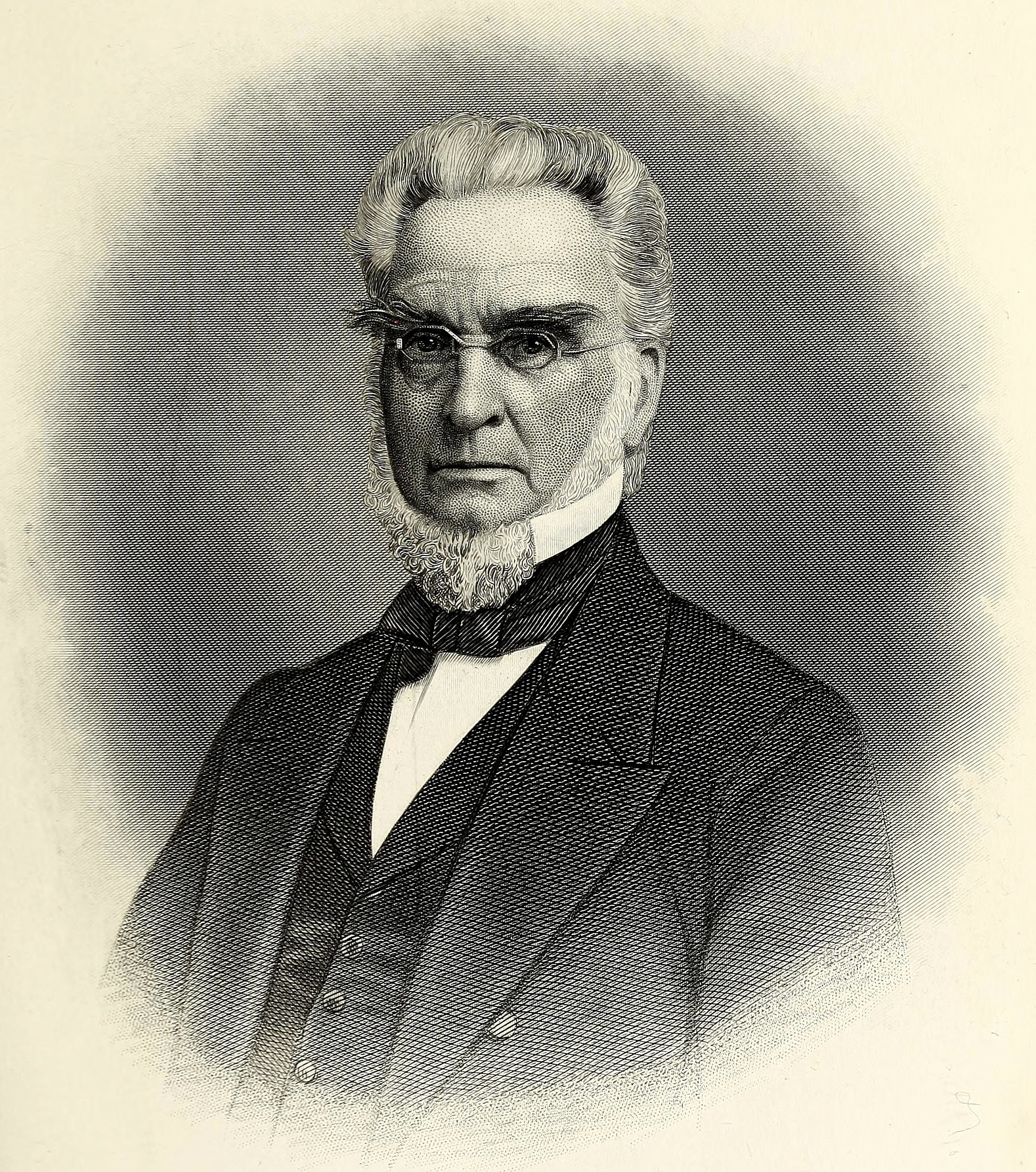 Erastus Fairbanks, Engraving by Metropolitan Publishing and Engraving Co., Boston; from Gazetteer of Caledonia and Essex Counties, VT; 1764-1887, by Hamilton Child, May, 1887, page 327.